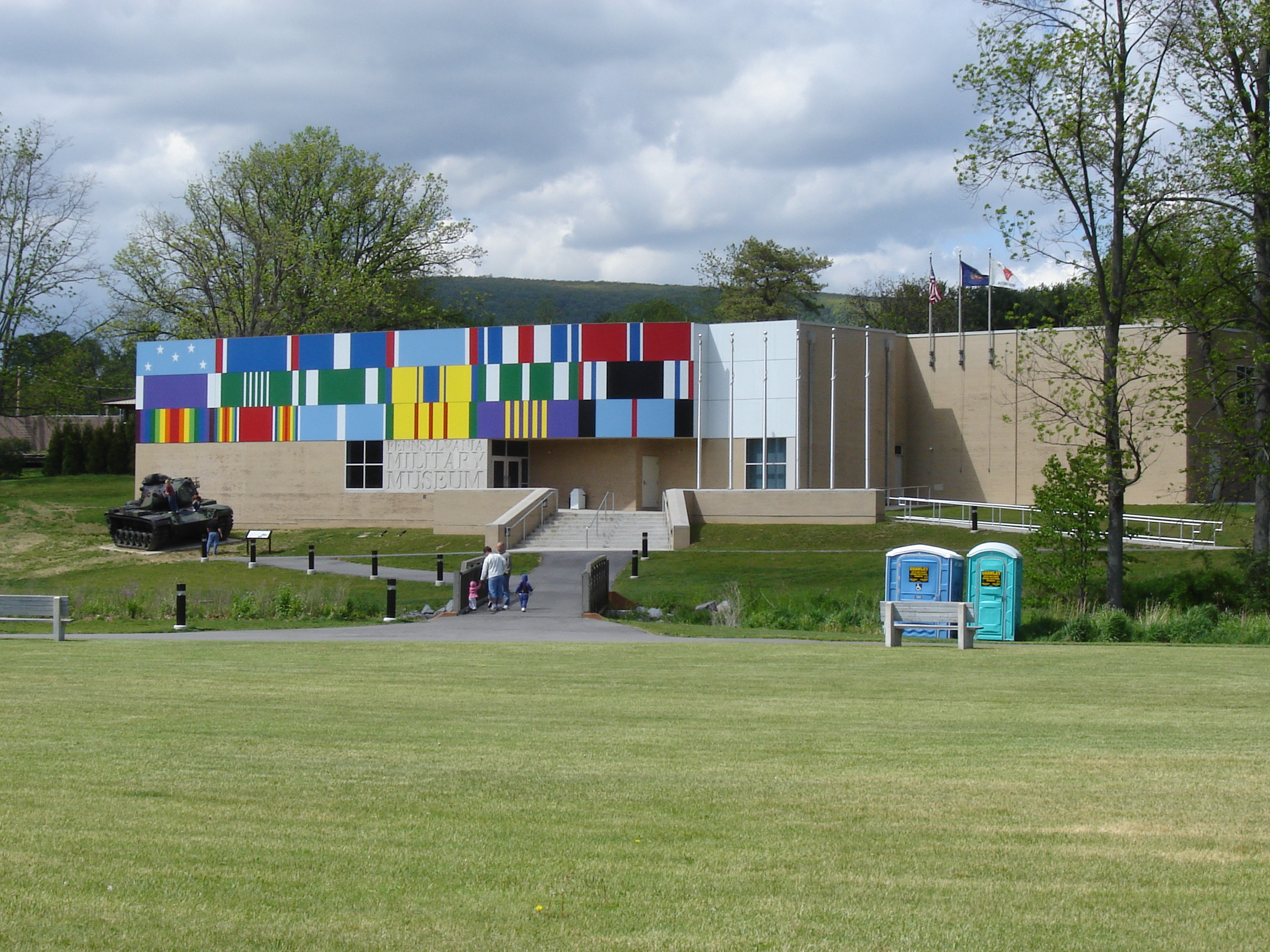 A view of the Pennsylvania Military Museum in Boalsburg, Pennsylvania.